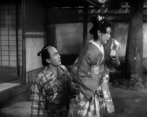 Screenshot from The Life of Oharu, 1952 film. Kinuyo Tanaka as Oharu, Toshirō Mifune as Katsunosuke.